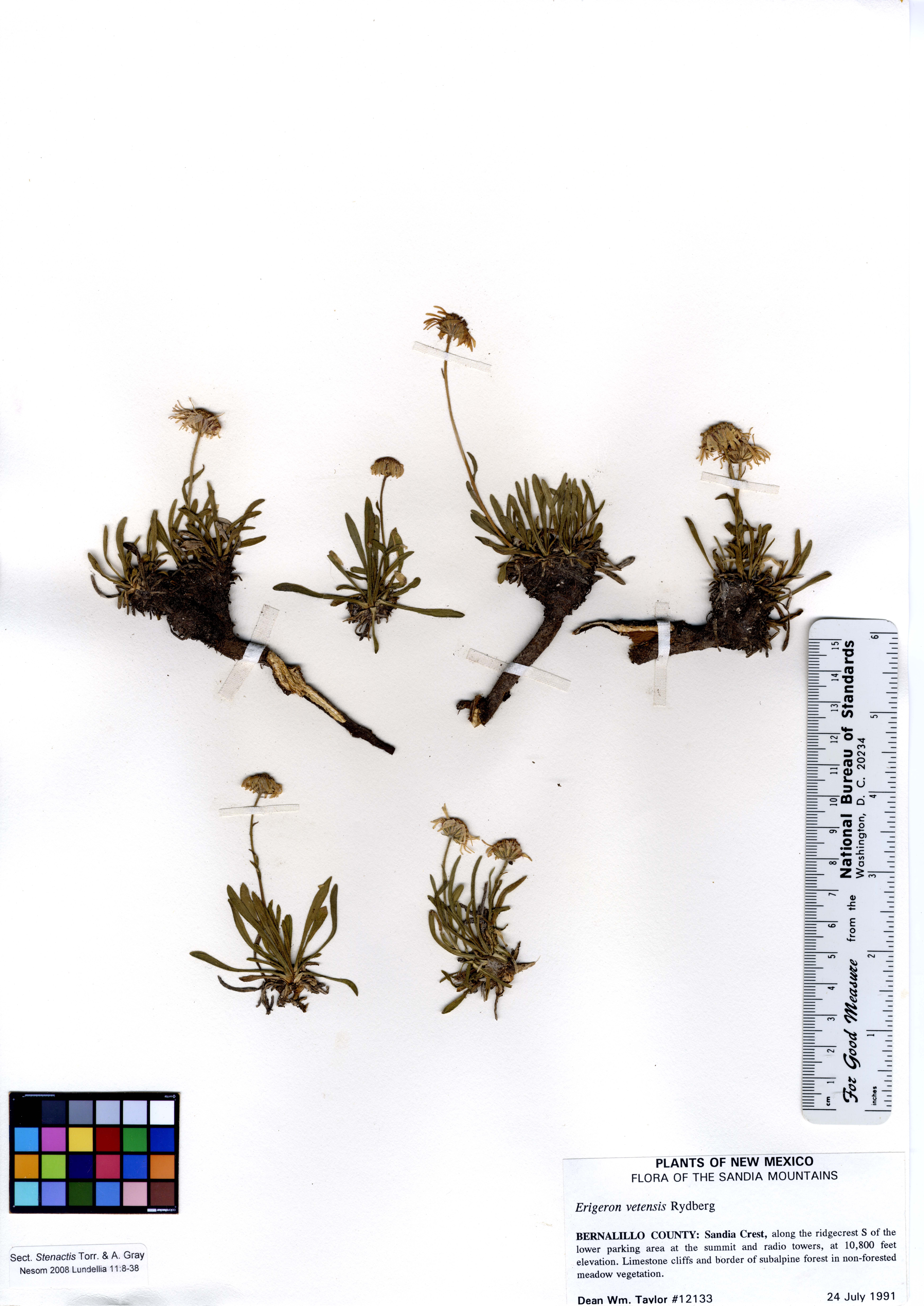 Sect. Stenactis Torr. & A. Gray